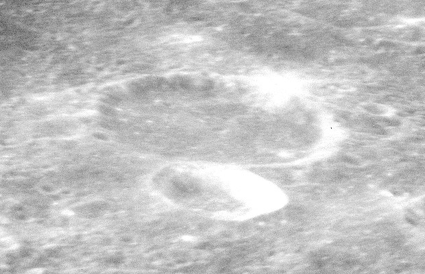 Oblique view of Hooke crater, on the moon. Taken by Apollo 16 panoramic camera during Trans-Earth Injection. Brightness and contrast adjusted in GIMP.